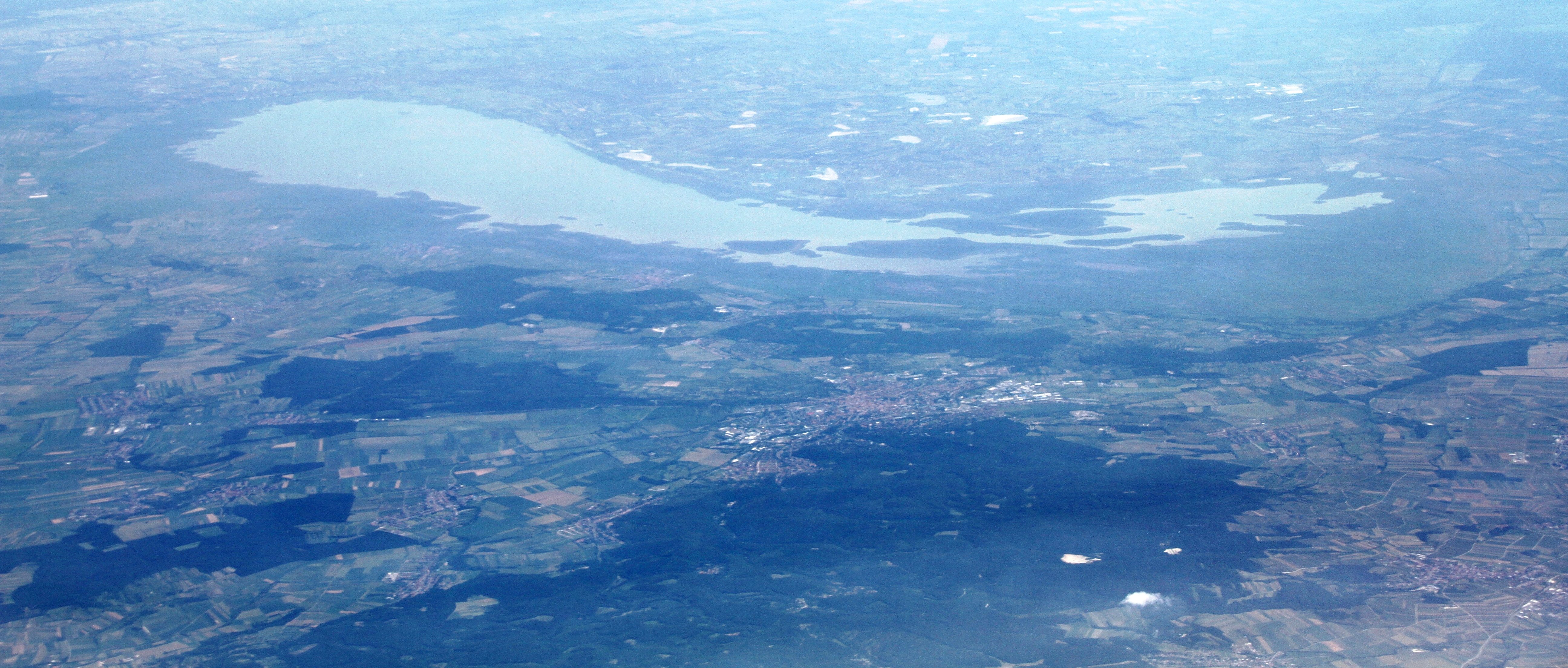 Neusiedler See, a lake in eastern Austria.